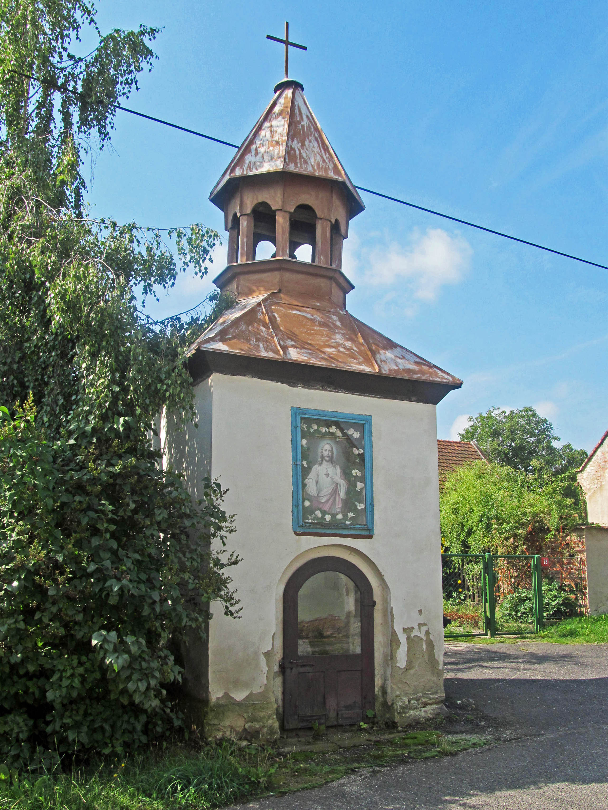 Chapel from 18th century in Třeskonice